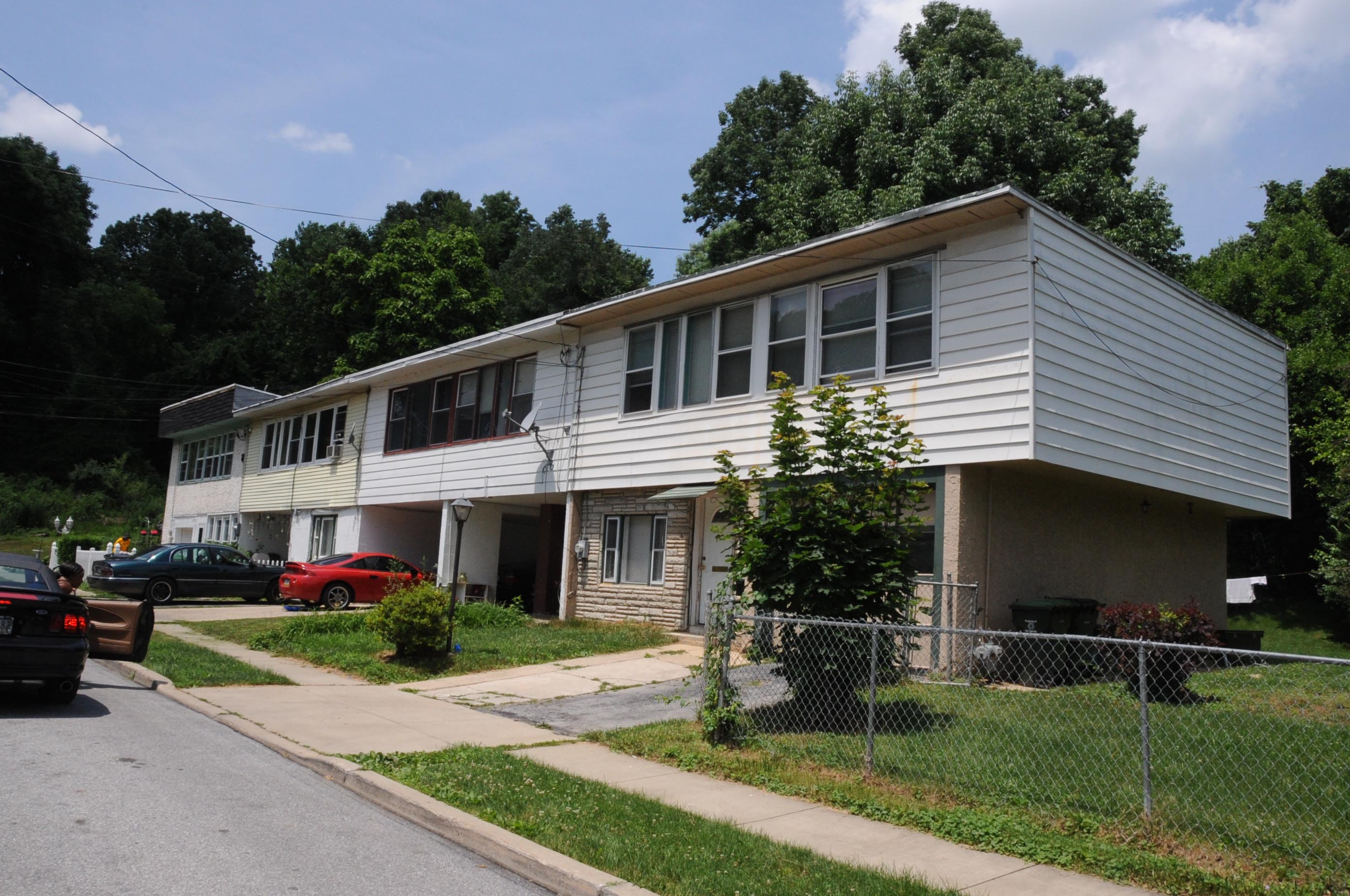 A FEDERAL HOUSING PROJECT BUILT FOR AFRICAN AMERICAN DEFENSE WORKERS JUST OUTSIDE COATESVILLE DURING WORLD WAR II. FOUNDRY ROAD AND BROOKS ROADS ARE A CUL DE SAC WITH 100 HOMES IN INTERNTIONAL STYLE. NAMED FOR GEORGE WASHINGTON CARVER, WORLD FAMOUS SCIENTIST. IN Caln (with an "L") Township, Chester County, Pennsylvania. Designed by Louis Kahn and Oscar Stonorov